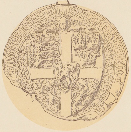 Seal of King Eric of Pomerania (to Denmark, Sweden and Norway), based on 13 documents, dated 1398–1435. Featuring the coat of arms of Norway, Denmark, the House of Bjelbo/Folkung, the Three Crowns (of Sweden) and Pomerania. Text: "✠ s' ⋅ erici ⋅ dei ⋅ gracia ⋅ regnorum [⋅ dacie ⋅ swecie ⋅ norwegie ⋅] regis ac ⋅ ducis ⋅ pomerani". Size: 102 mm.